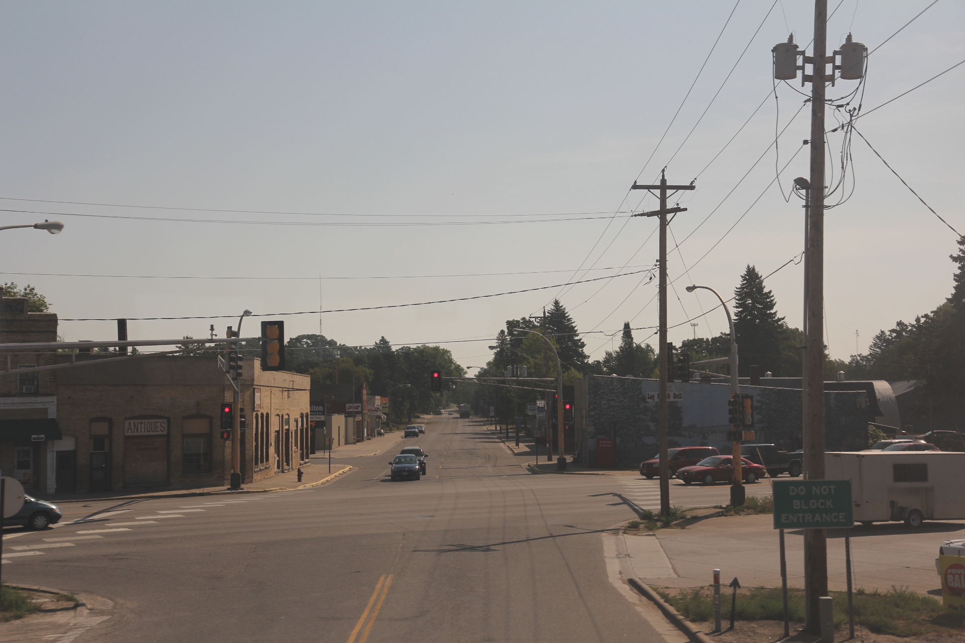 Downtown Royalton, Minnesota